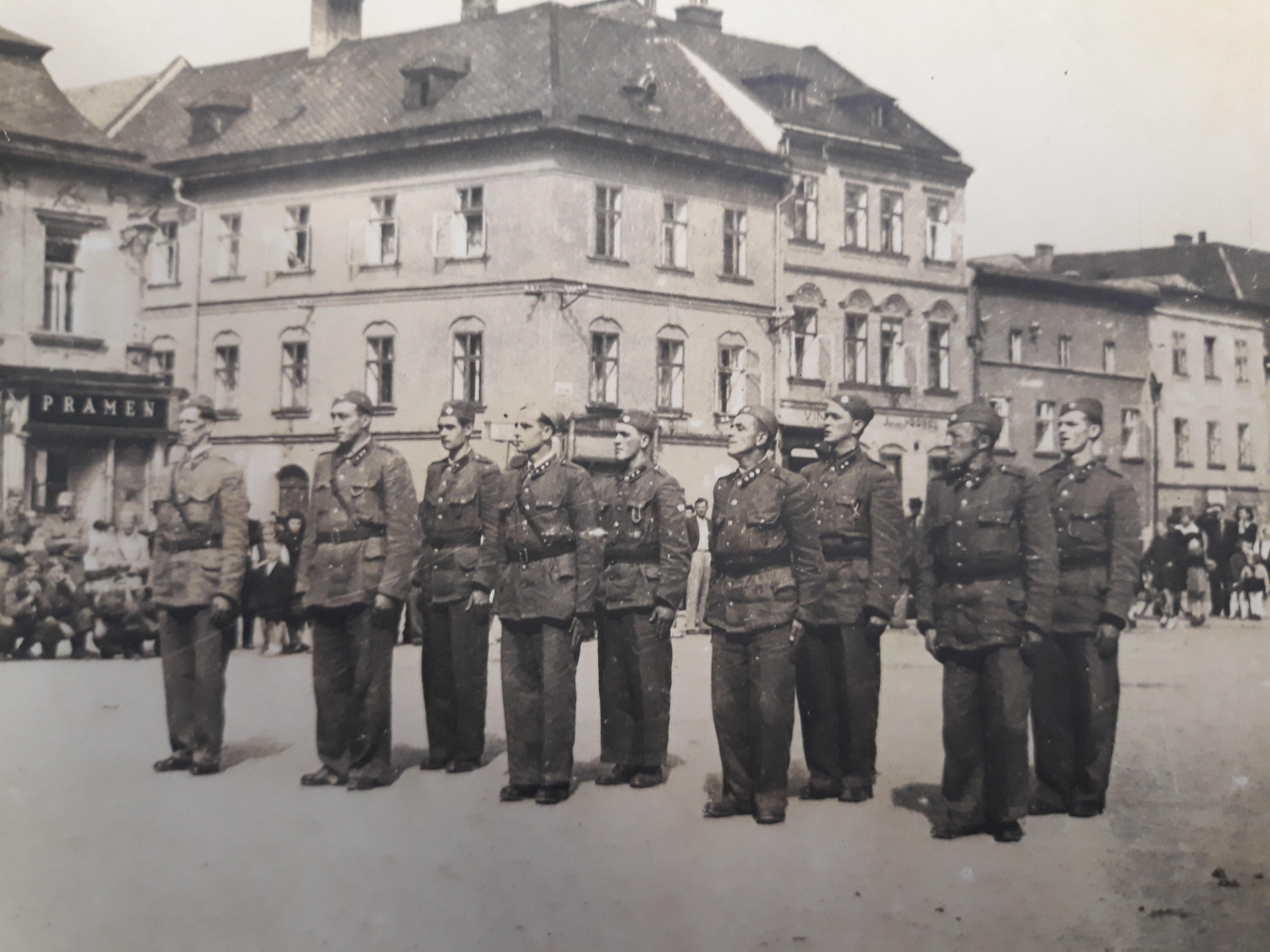 Okresní sjezd hasičstva ve Šternberku v roce 1951 - 2. místo Sbor dobrovolných hasičů Dolní Libina (nástup)